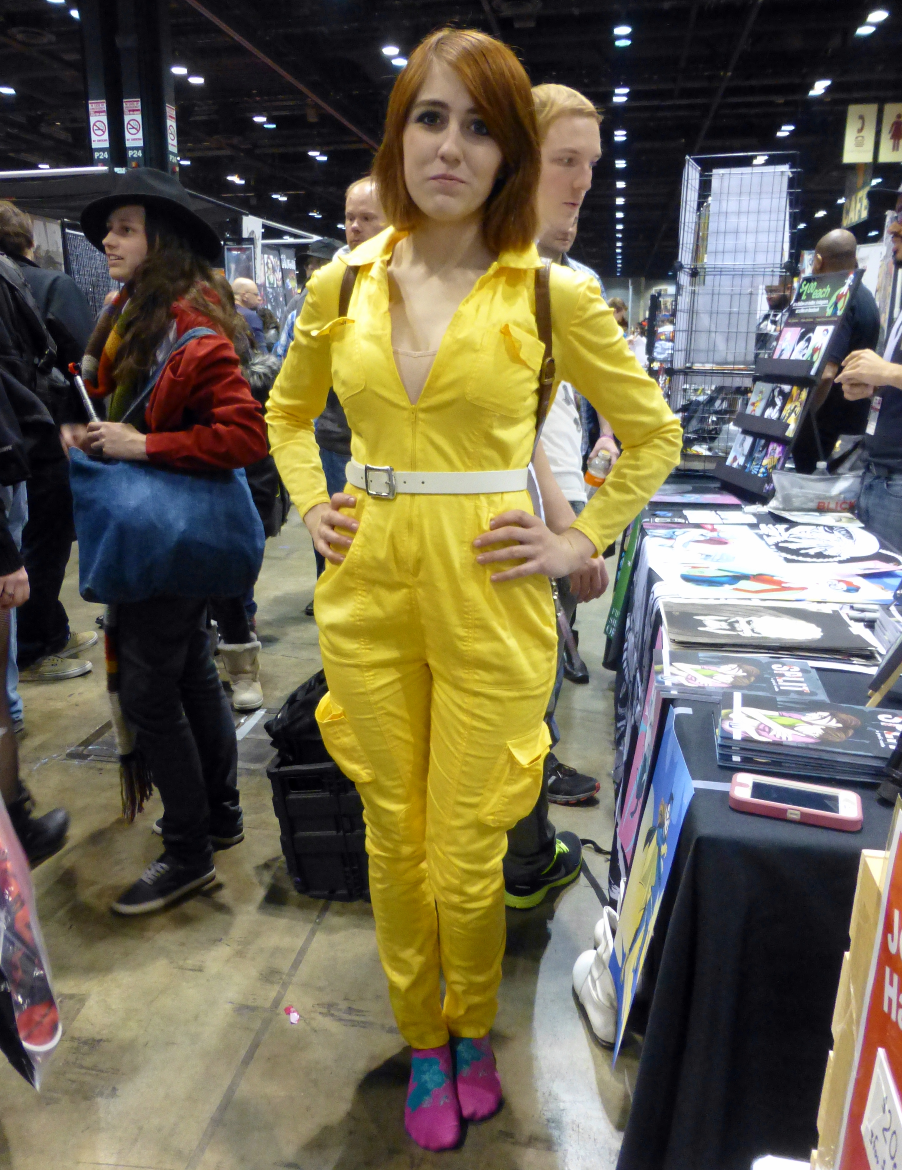 April O Neil from TMNT Cosplay at Chicago Comic & Entertainment Expo (C2E2) 2015.